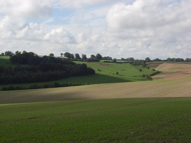 Snap. A view from the bridleway just below Upper Upham. The medieval village was in the wooded and grassy areas.